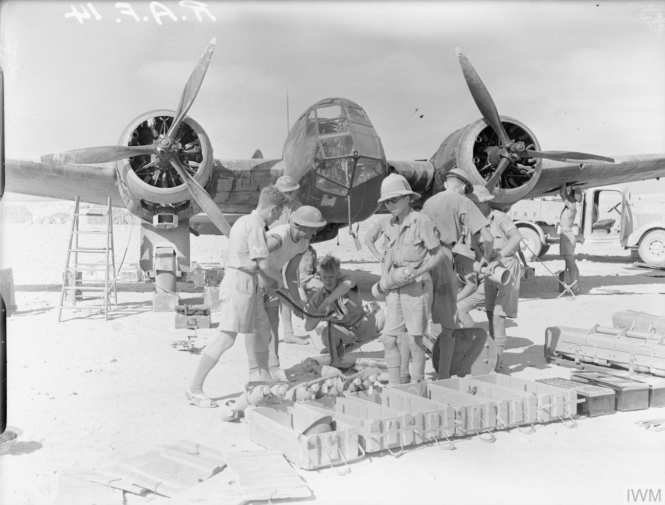 Royal Air Force Operations in the Middle East and North Africa, 1939-1943. Armourers of No. 113 Squadron RAF place 20-lb Fragmentation bombs into a Small Bomb Container, and prepare .303 ammunition, for loading into one of the Squadron's Bristol Blenheim Mark Is at Ma'aten Bagush, Egypt, before a raid on Italian positions at Tobruk.